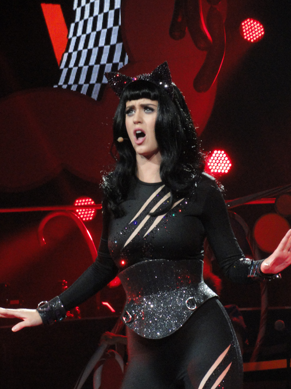 Katy Perry performing live in Seattle, WA in July 2011